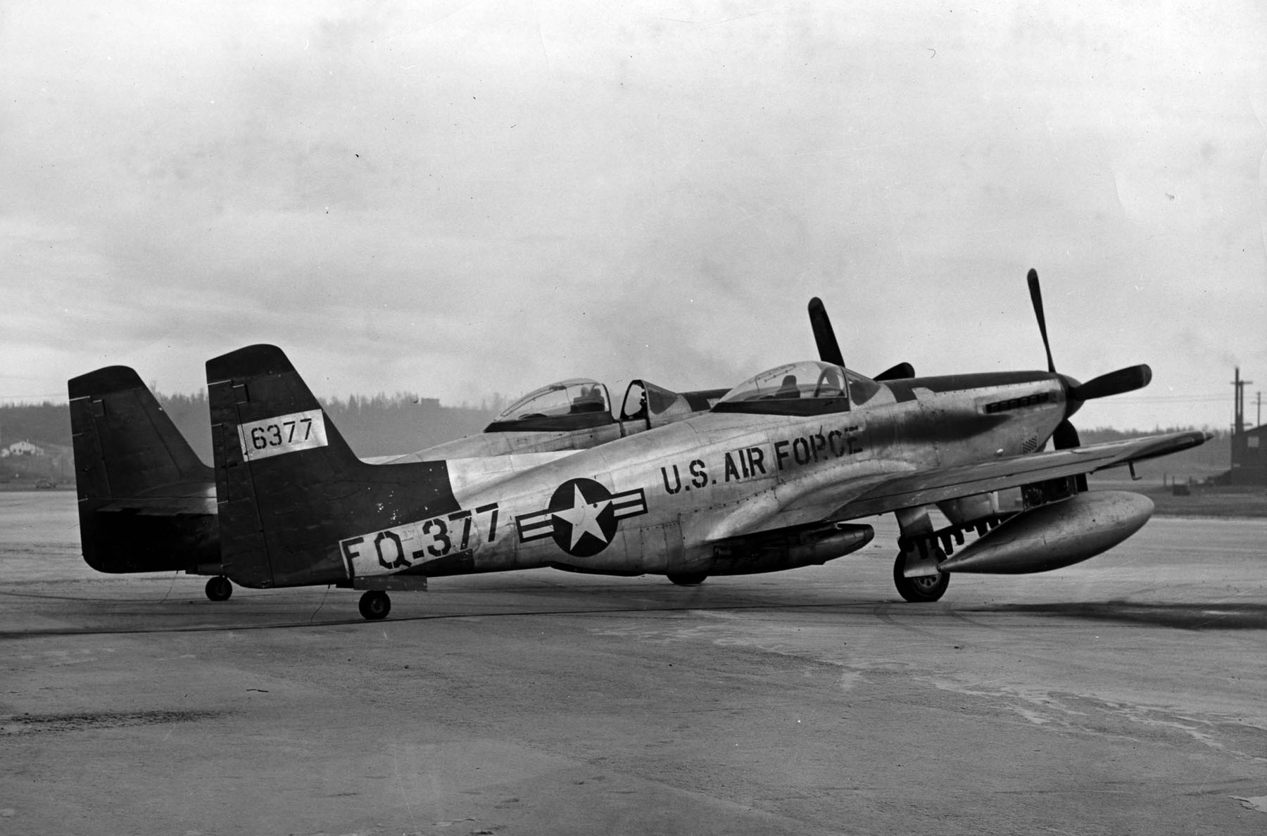 North American F-82H (S/N 46-377).